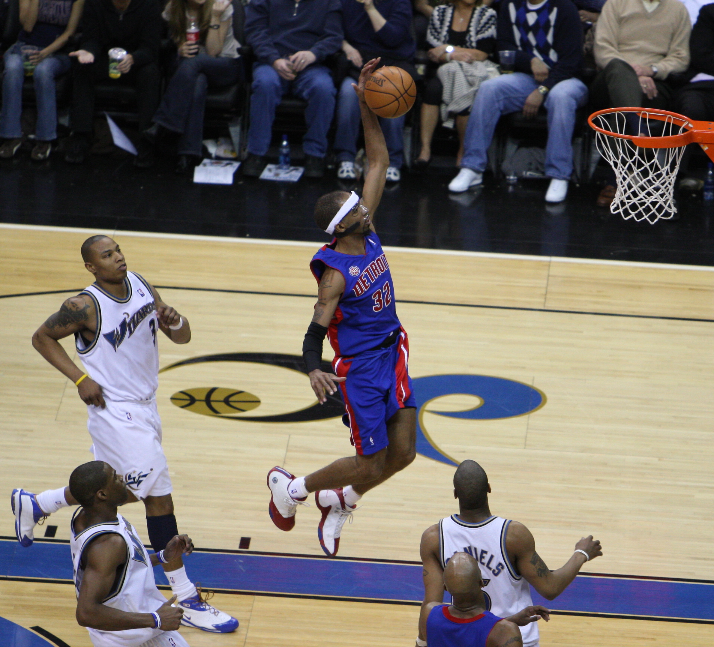 Richard Hamilton playing with the Detroit Pistons